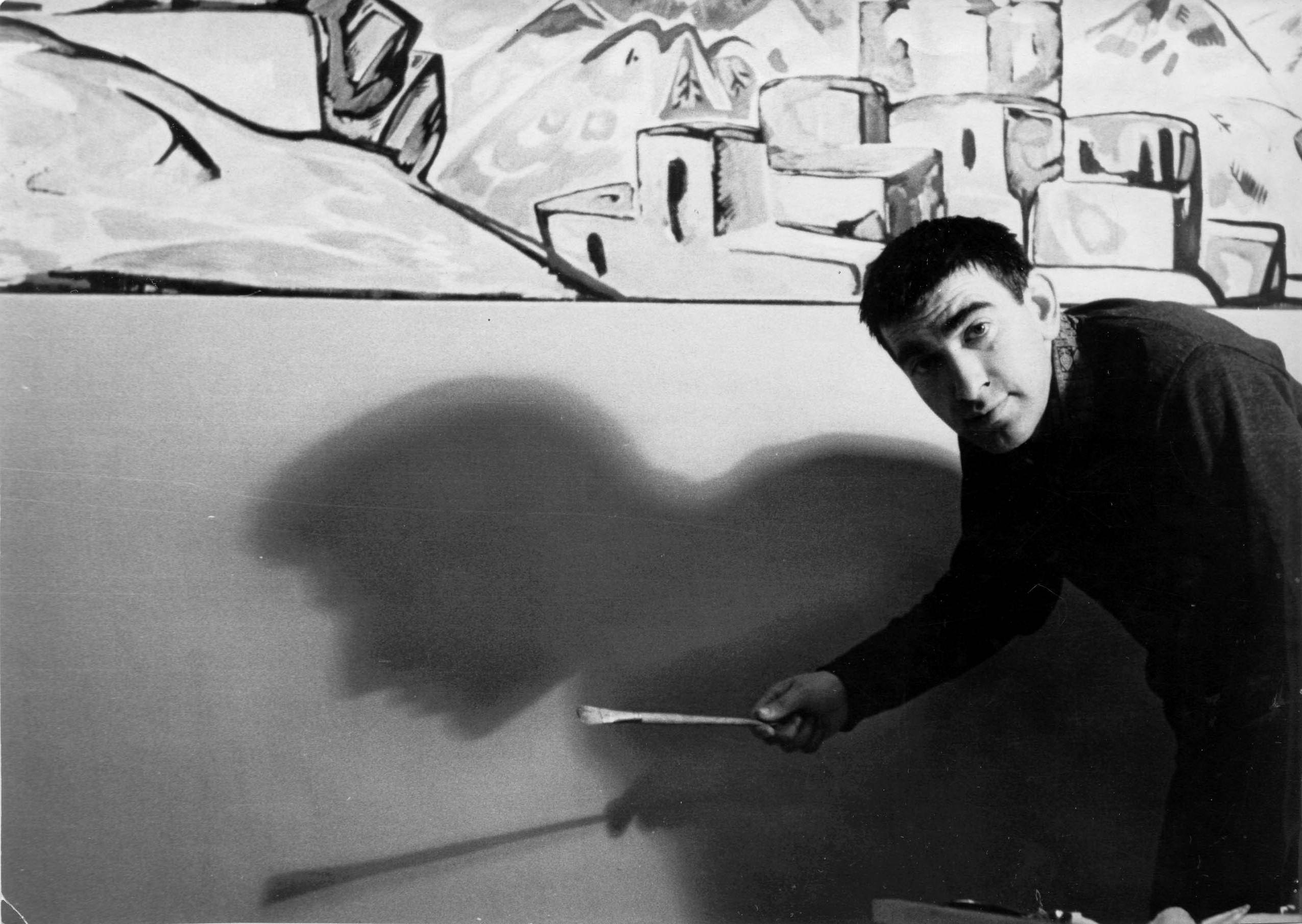 Seyran Khatlamajyan near his fresco in Yerevan at 1967. Photo by "Komsomolskaya pravda"